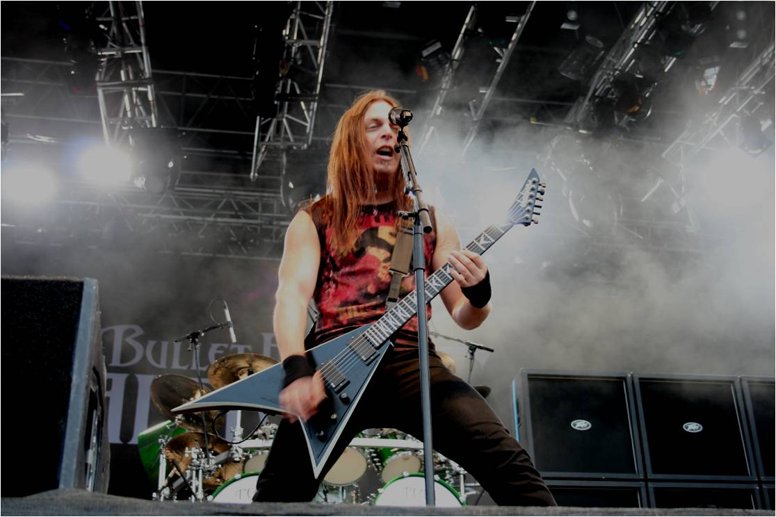 Bullet For My Valentine at Norway Rock Festival 2010